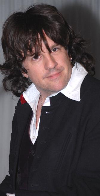 Bob Malone performing at the 2007 Hollywood Cure for Pain Benefit